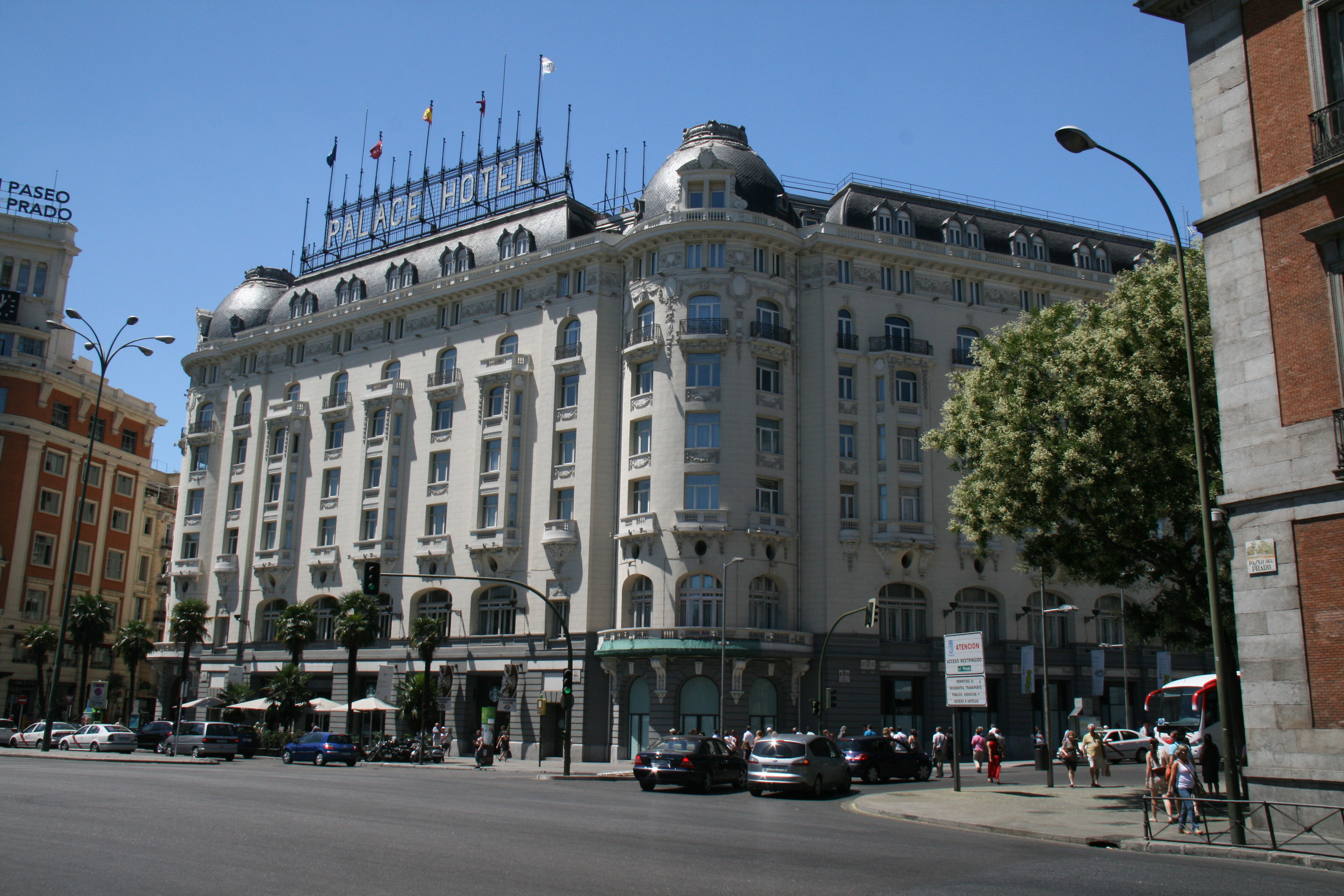 Palace Hotel, Madrid